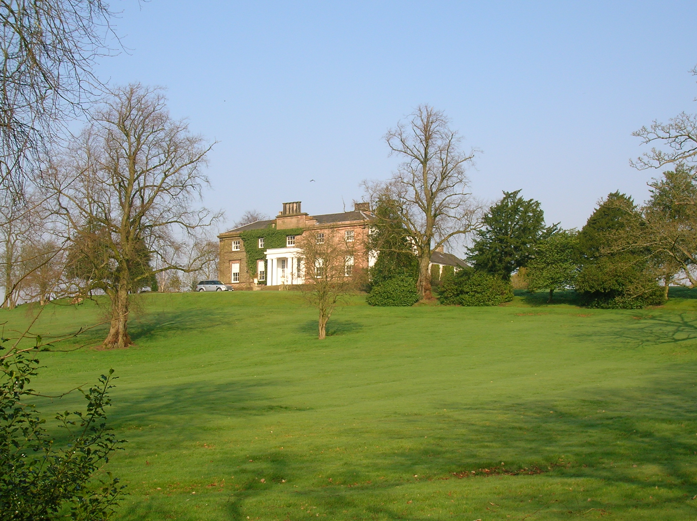 Shawhil House near Hurlford in East Ayrshire, Scotland.